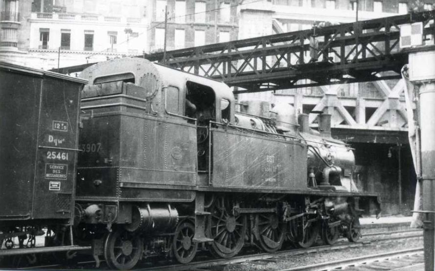 Steam locomotive 33907 EST serie 11s bis gare de Paris-Est.